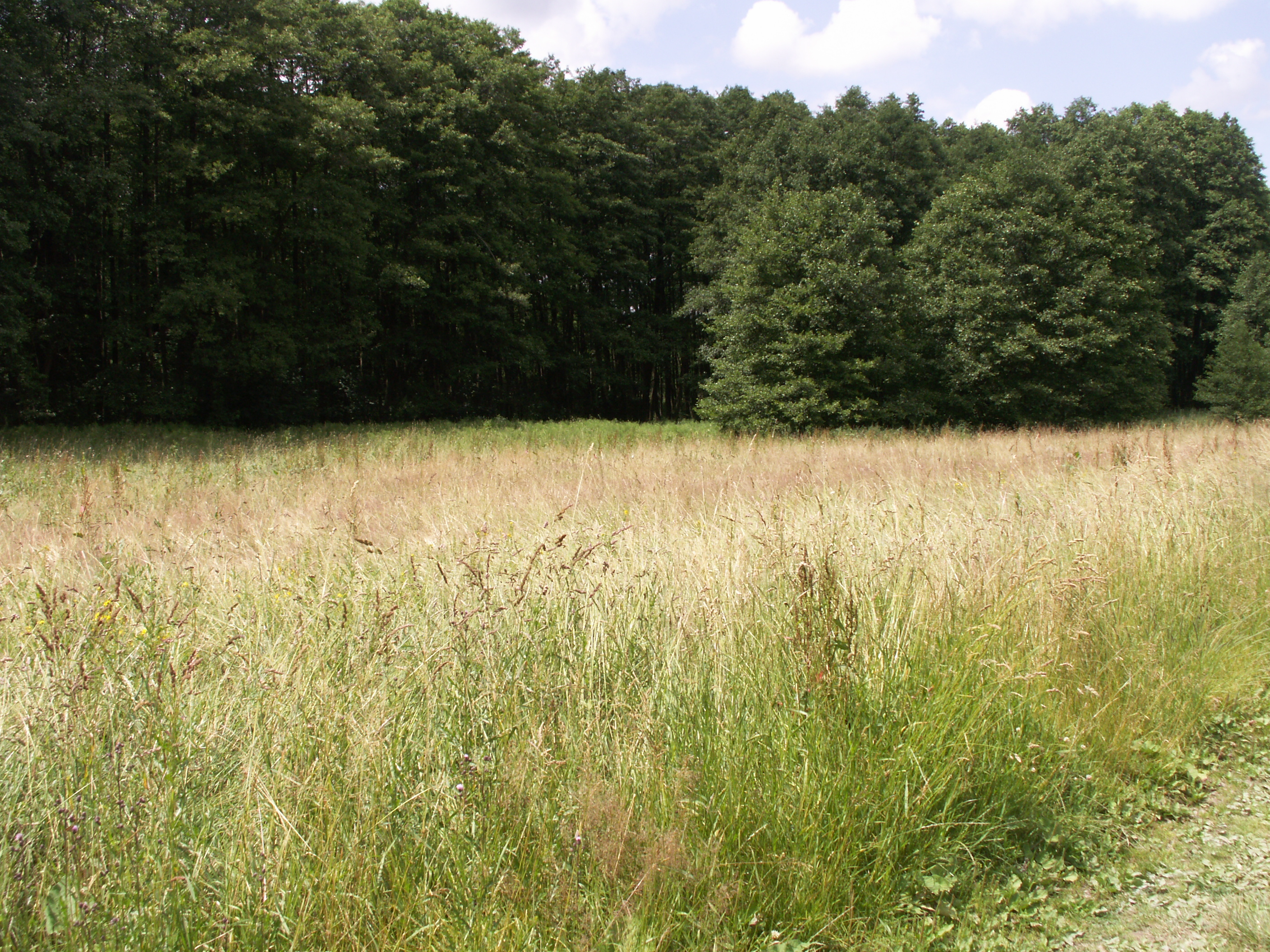 KONICA MINOLTA DIGITAL CAMERA, přírodní rezervace Zlatá louka, k.ú. Podmoklany a Nový Studenec, okres Havlíčkův Brod